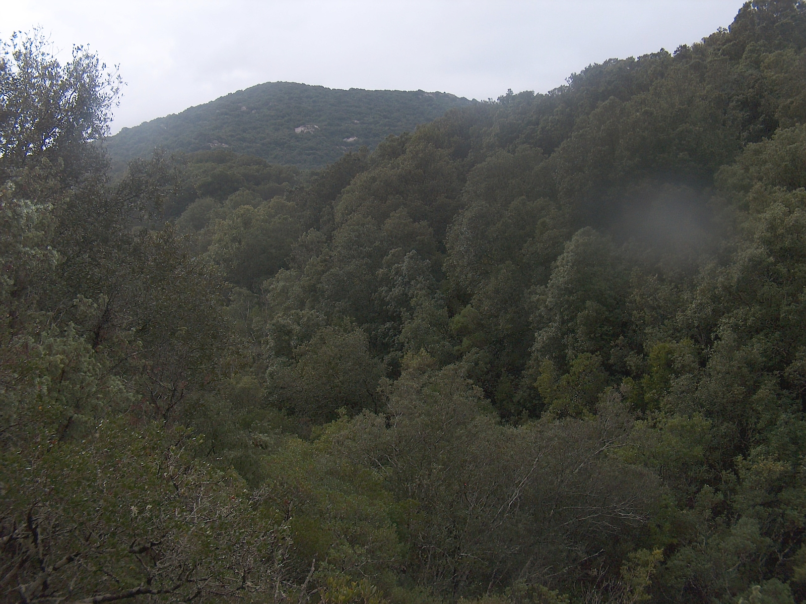 Secondary mediterranean sclerophyllous forest (not climax)